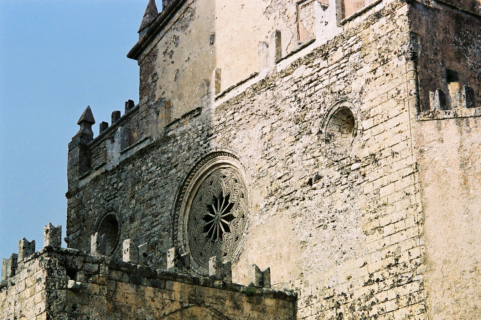 Chiesa Madre, Erice Gothic rosette at the main facade